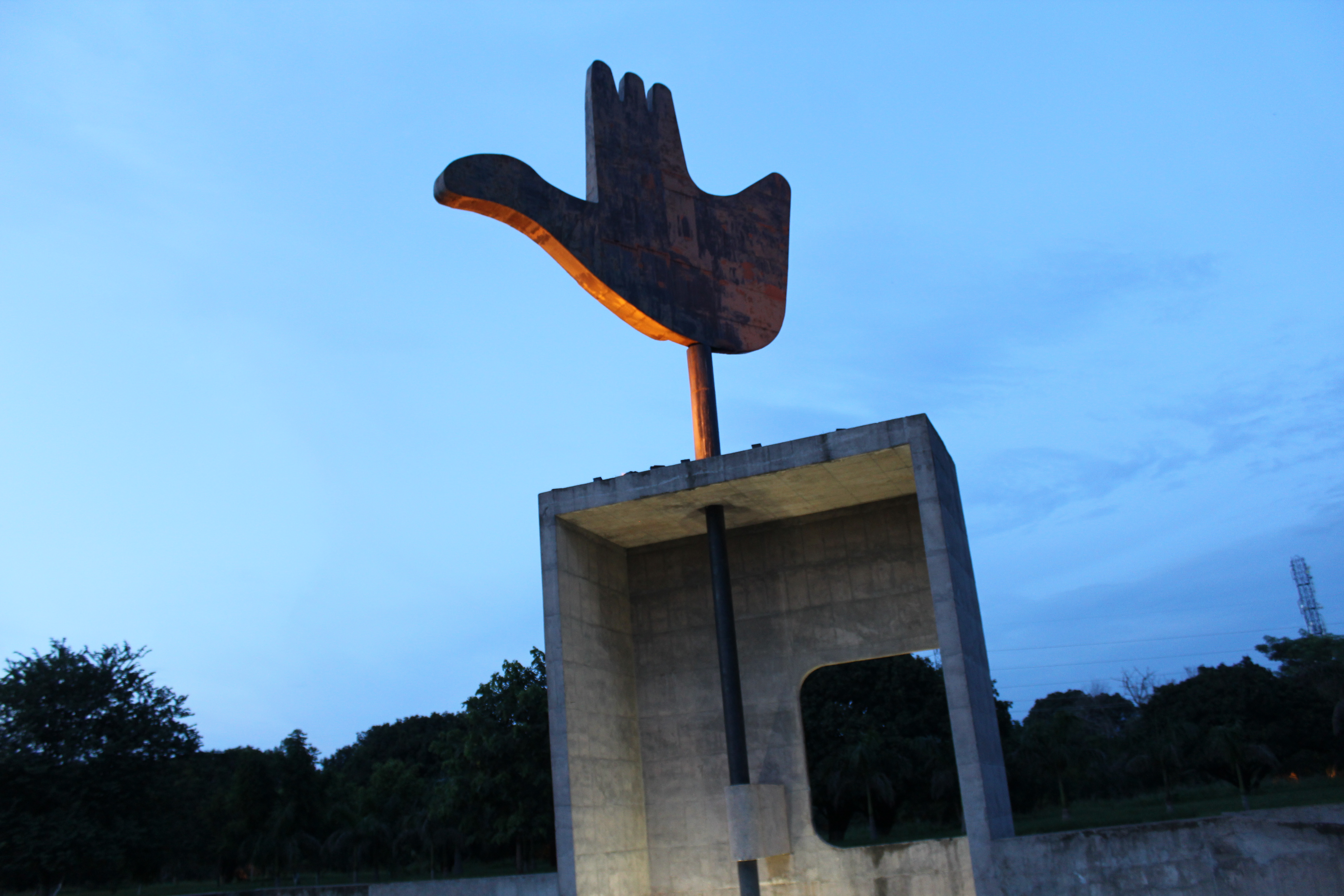 Open hand monument